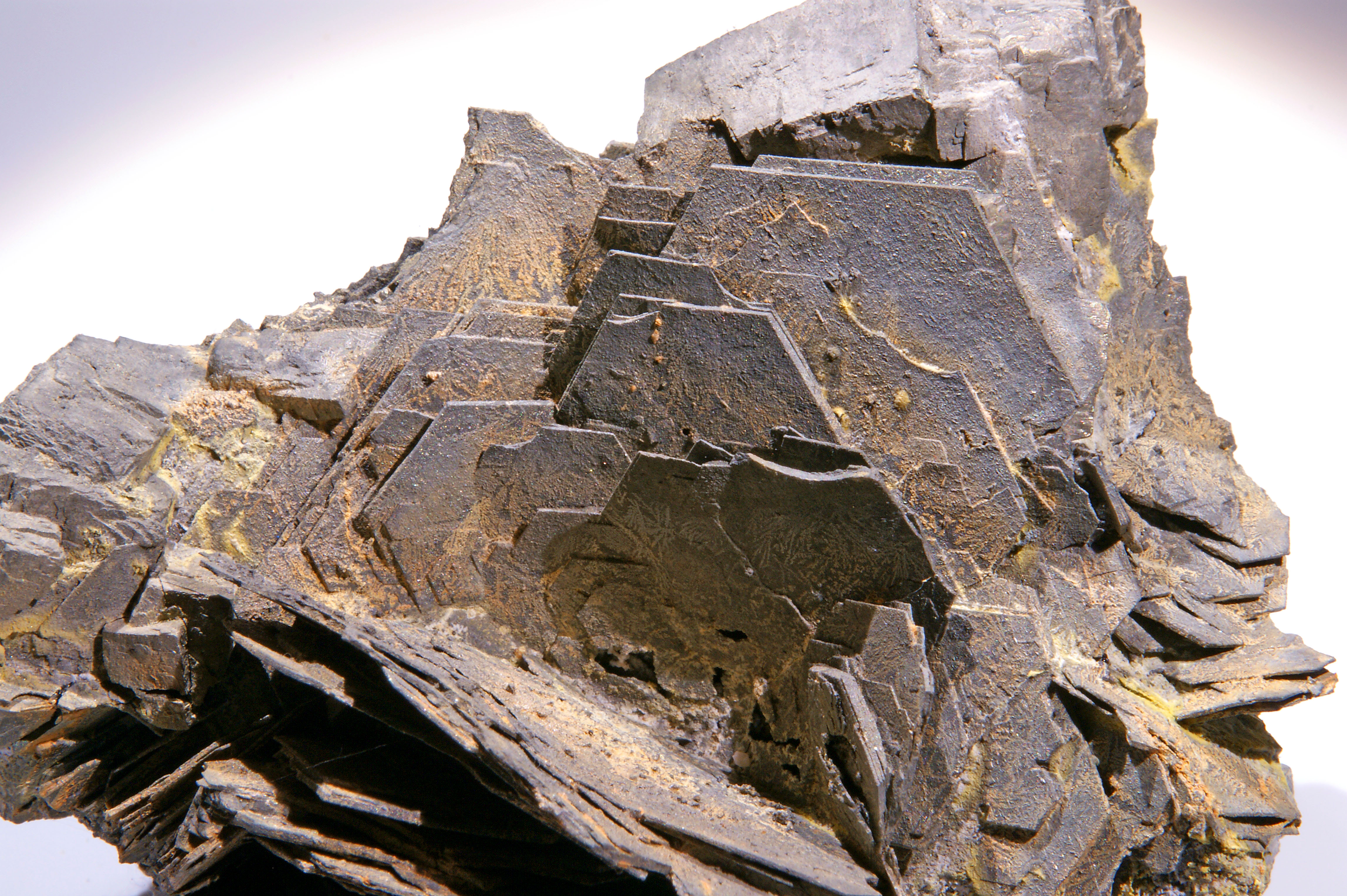 Pyrrotite- Santa Eulalia Aquiles Serdan Mine - (Chihuahua) Mexico